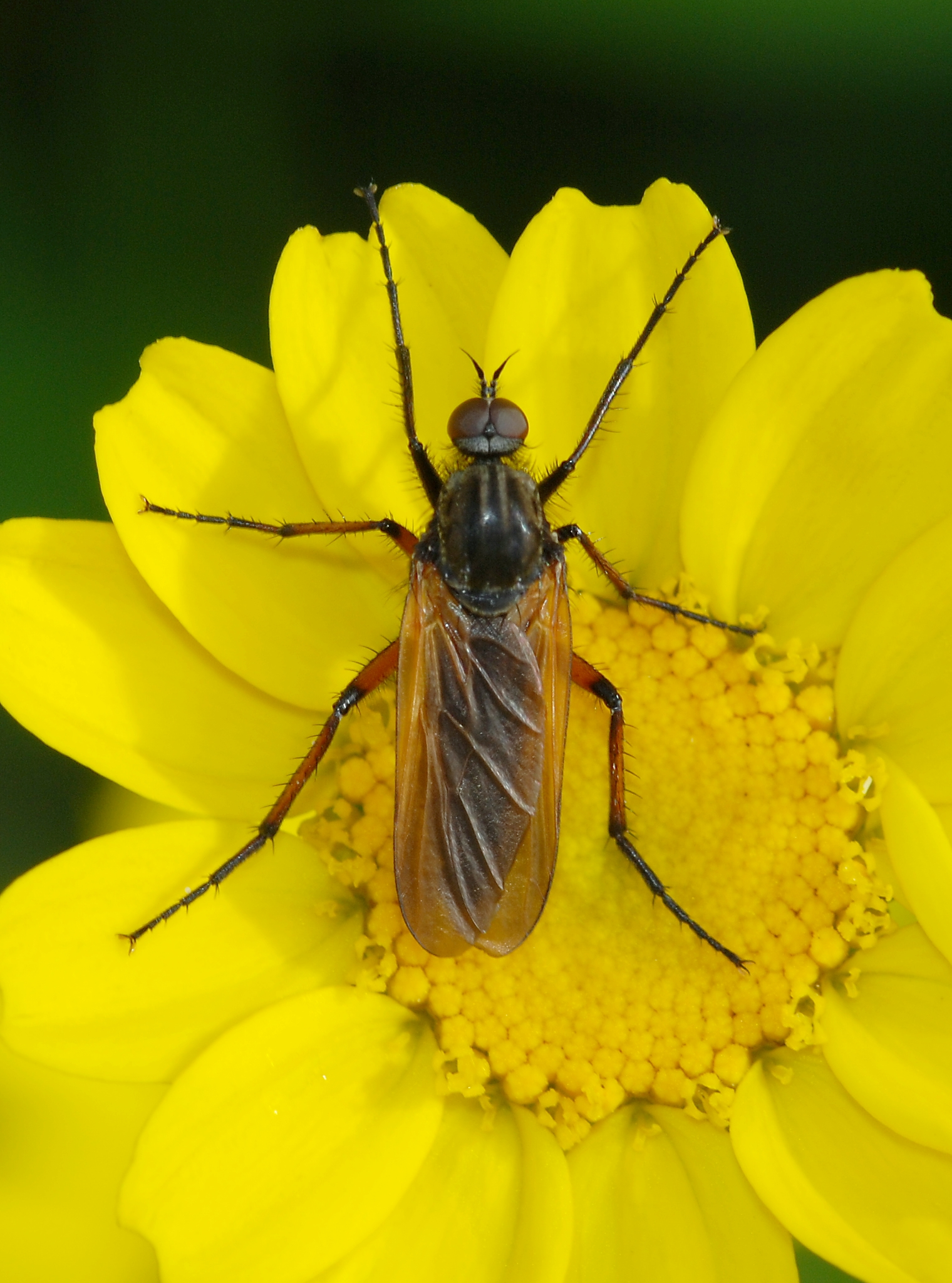 A Empis opaca' fly